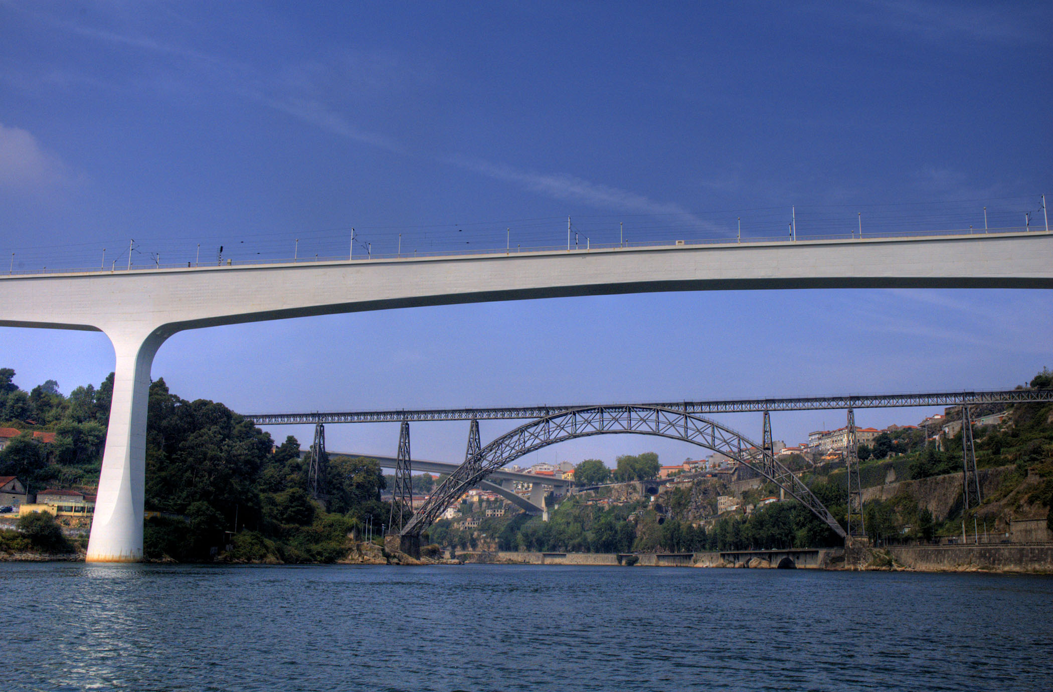 Bridgepixing in Porto, Portugal - The City of Bridges. In the foreground, the Ponte de São João, a Railroad Bridge built 1984-1991 over the Douro River to replace the older Maria Pia Bridge in the background. Ponte Maria Pia, the historic arch Railroad Bridge designed by Eiffel and built in 1876-1877, is no longer in use. In the far background, the Infante D. Henrique Bridge, a highway arch bridge built 1999-2002.